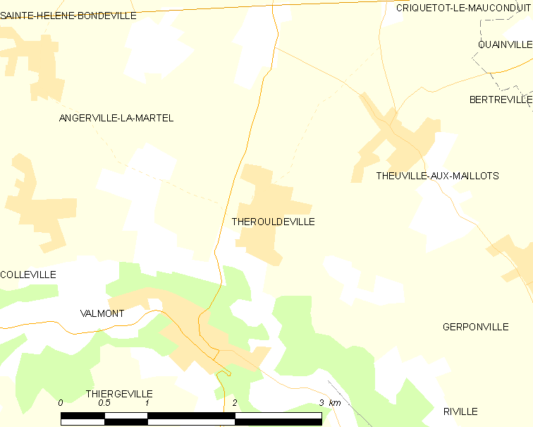 Map of French municipality Thérouldeville